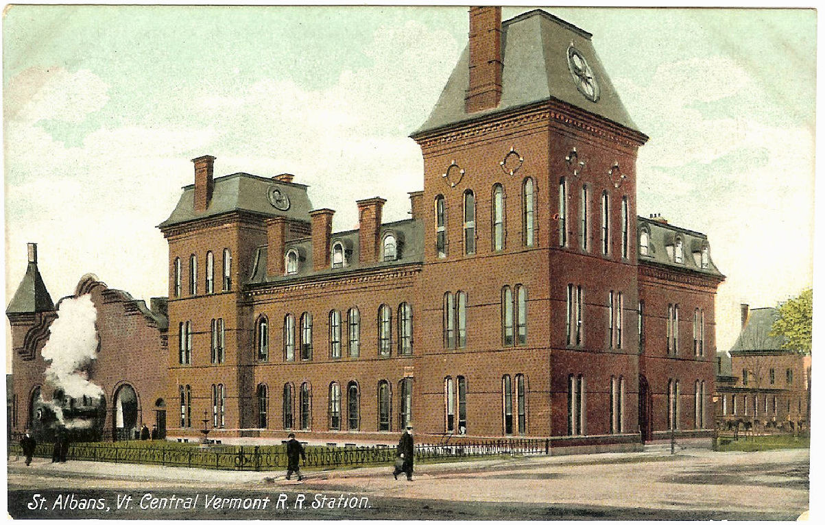 1910 postcard of St. Albans, Vermont station and Central Vermont Railway office building